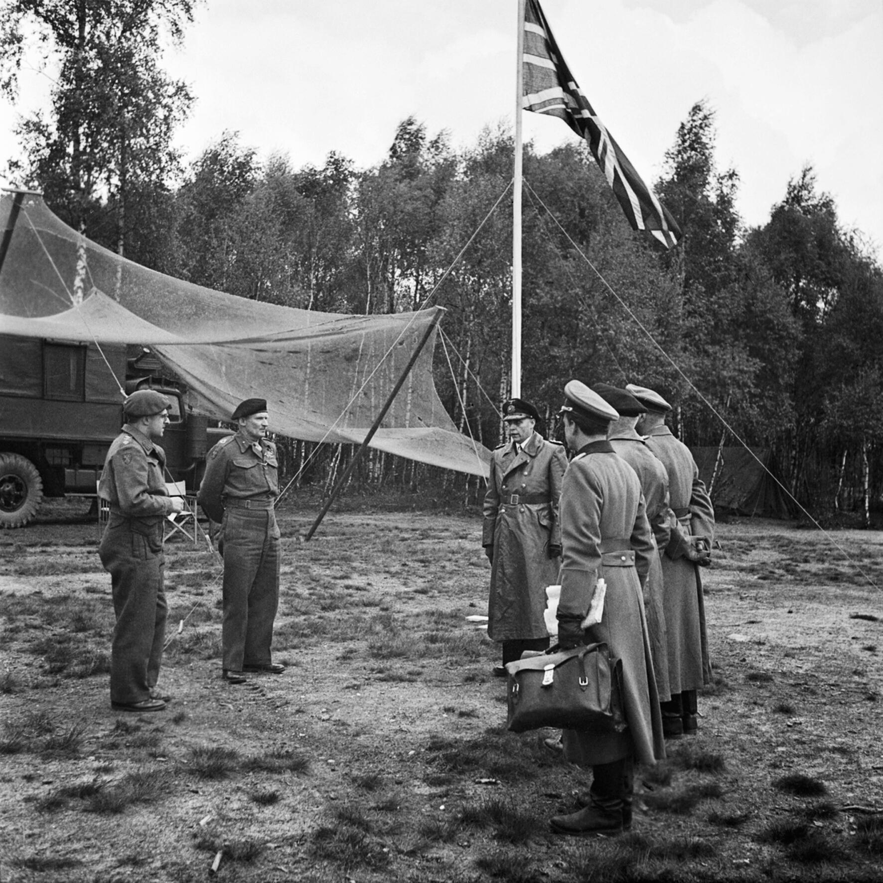 German Military Forces Seek Surrender Terms, May 1945 Field Marshal Sir Bernard Montgomery with the German delegates outside his headquarters at 21st Army Group.